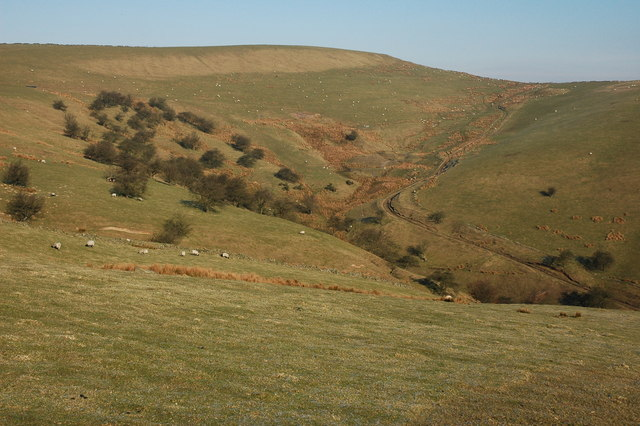 Sponds Hill Sponds Hill viewed from Bakestonedale Moor Road.